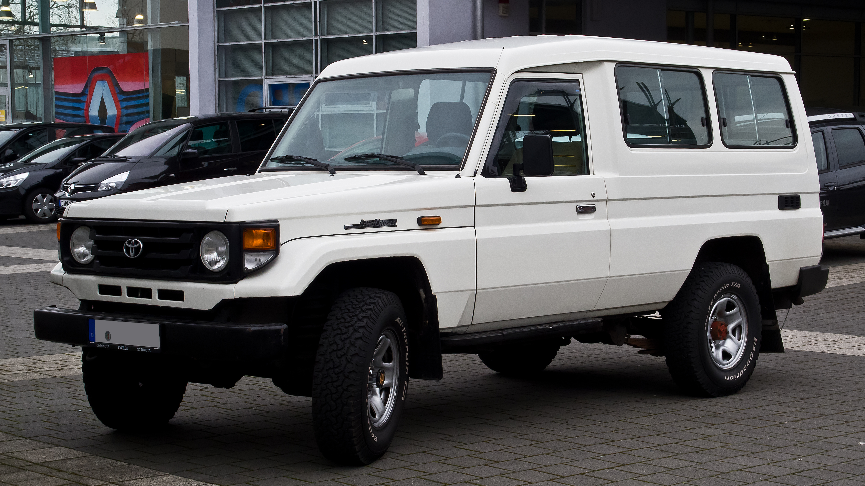 Toyota Land Cruiser (J7, Facelift)